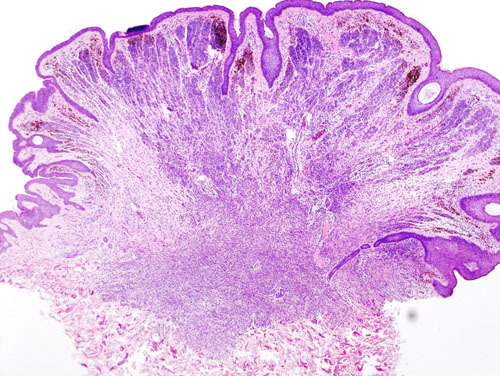 Histopathologic image of intradermal type nevocellular nevus by excisional biopsy. Hematoxylin and eosin stain.